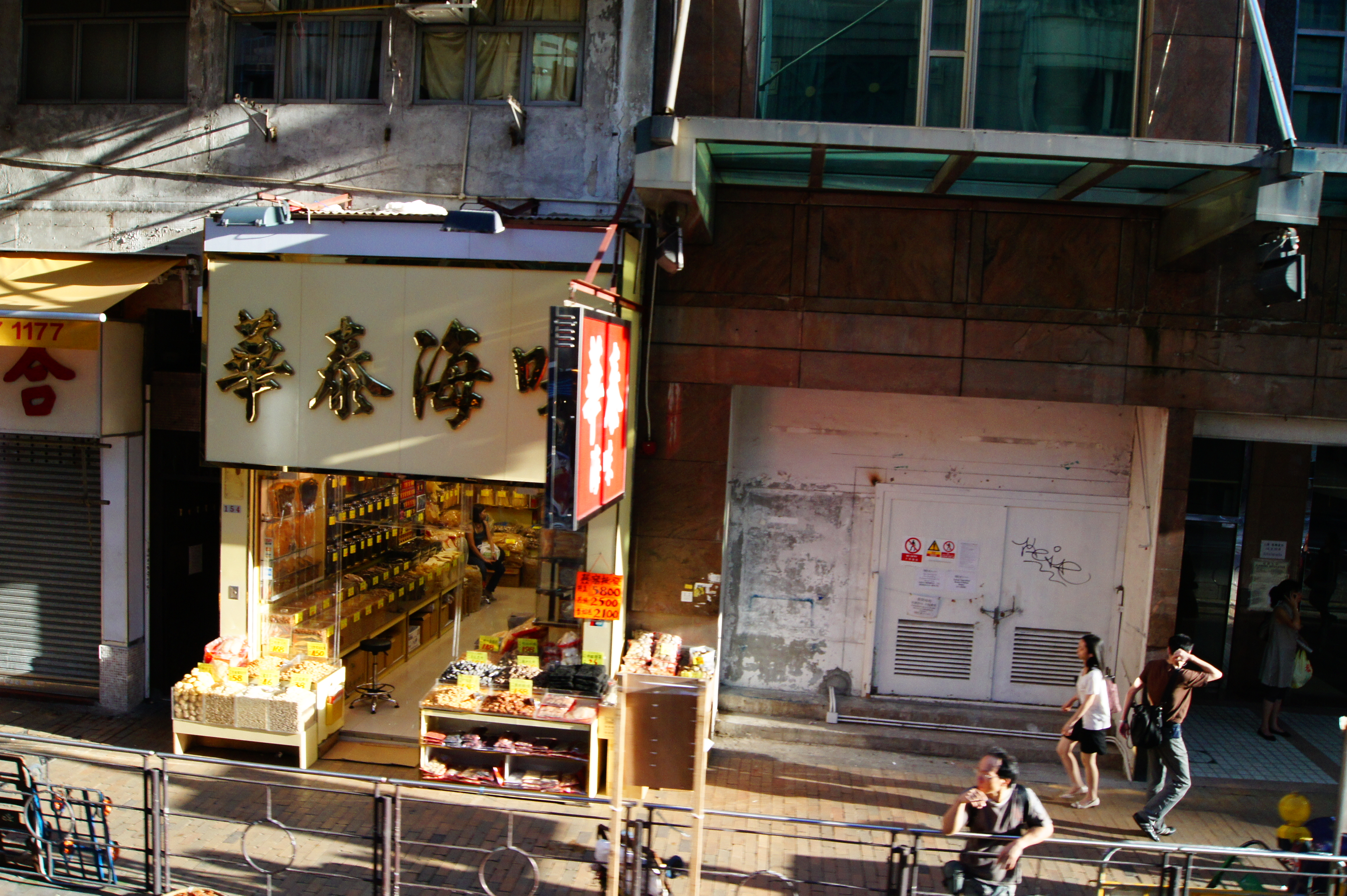 MTR West Island Line construction site (Sai Ying Pun Station Exit A2)